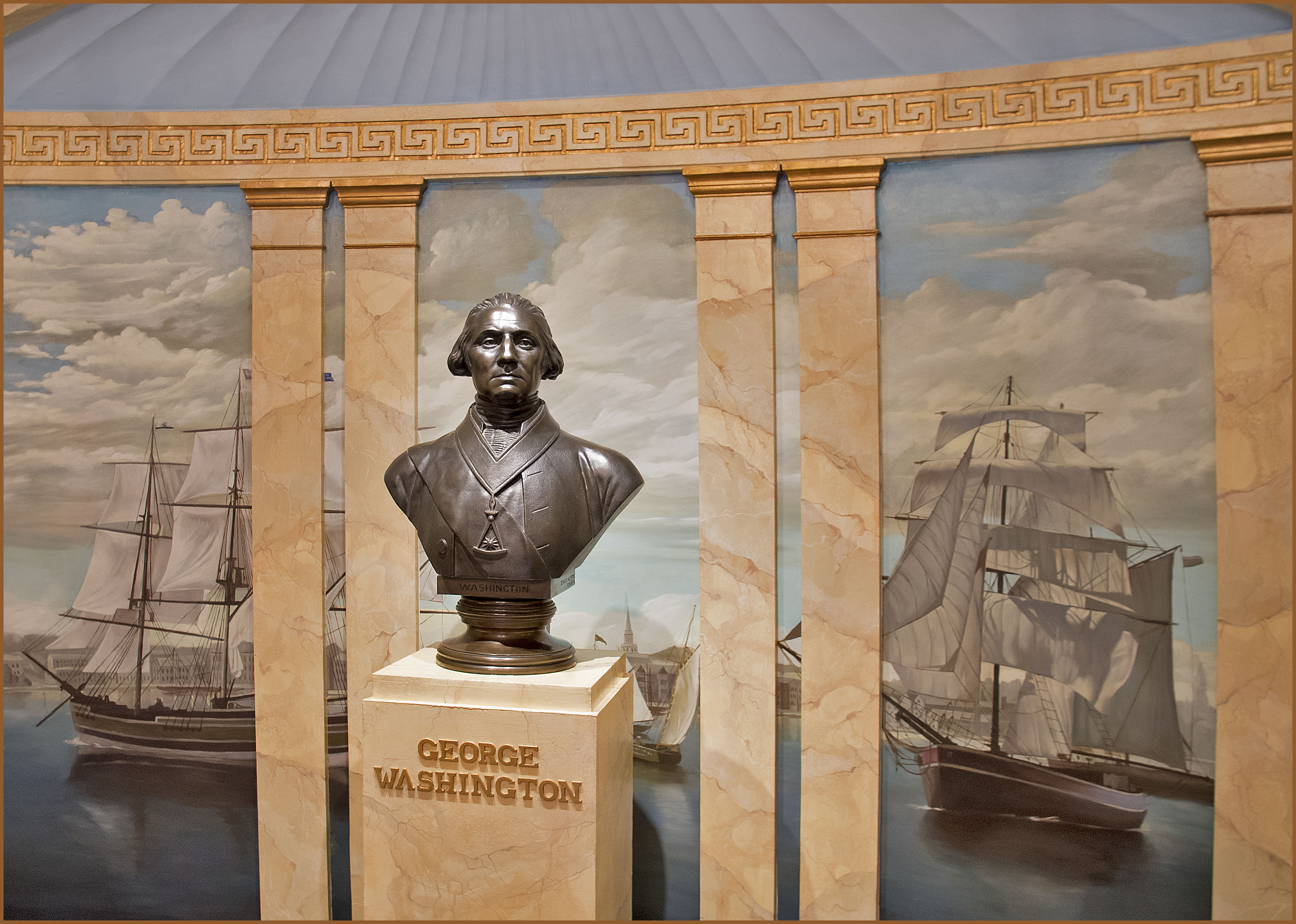 Bust of 'George Washington as Freemason' by Edward Valentine (1876) -- The George Washington Masonic National Memorial Alexandria